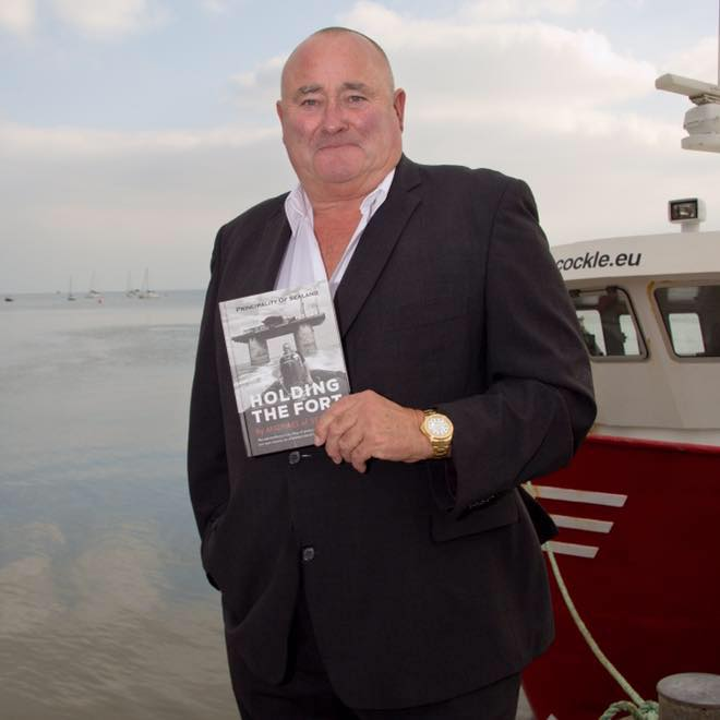 Michael Bates, current Prince of the Principality of Sealand, posing with his book